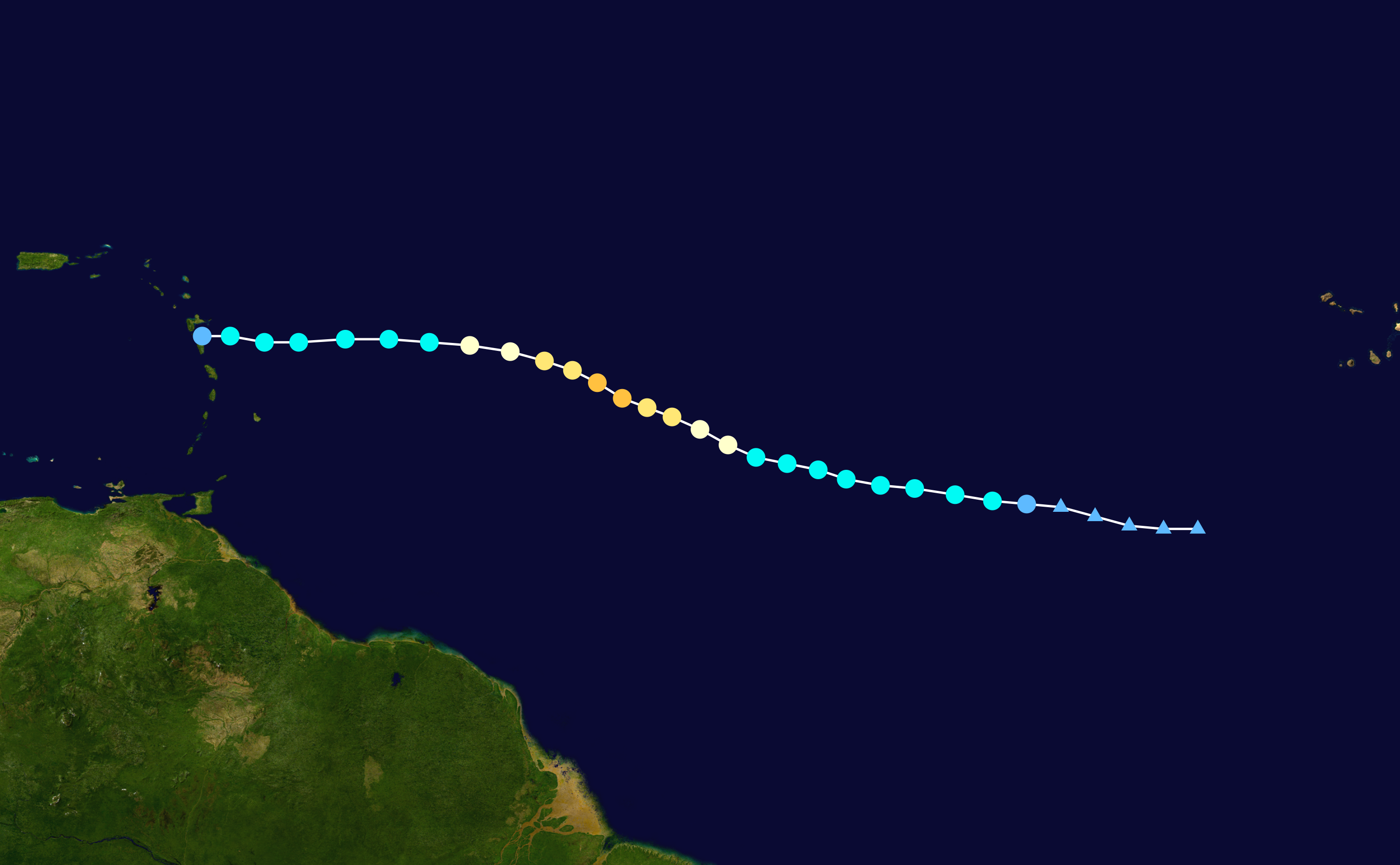 Track map of Hurricane Danny of the 2015 Atlantic hurricane season. The points show the location of the storm at 6-hour intervals. The colour represents the storm's maximum sustained wind speeds as classified in the Saffir–Simpson scale (see below), and the shape of the data points represent the nature of the storm, according to the legend below. Saffir–Simpson scale Tropical depression≤38 mph≤62 km/h Category 3111–129 mph178–208 km/h Tropical storm39–73 mph63–118 km/h Category 4130–156 mph209–251 km/h Category 174–95 mph119–153 km/h Category 5≥157 mph≥252 km/h Category 296–110 mph154–177 km/h Unknown Storm type Tropical cyclone Subtropical cyclone Extratropical cyclone / Remnant low / Tropical disturbance / Monsoon depression